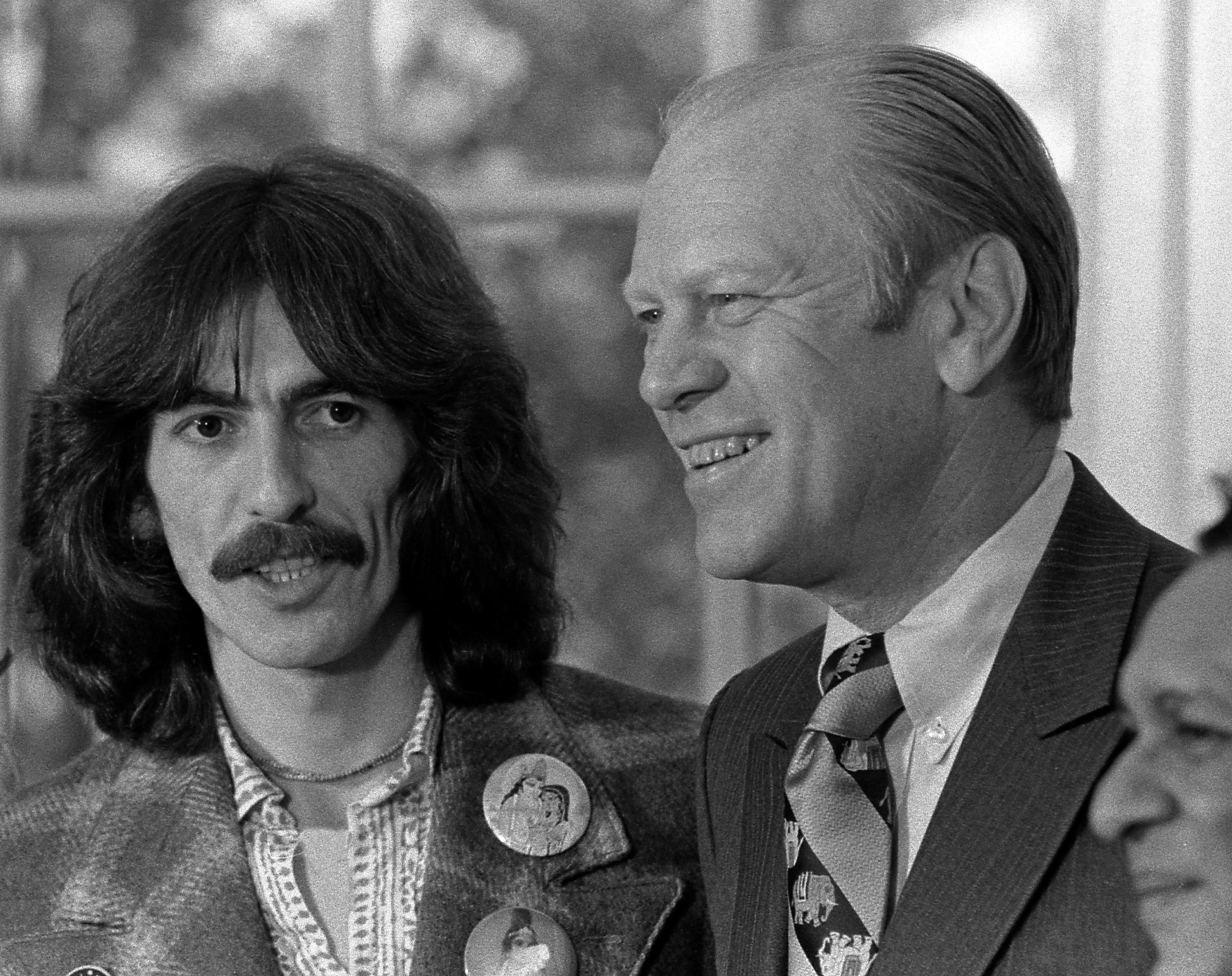 George Harrison, Gerald Ford, and Ravi Shankar in the Oval Office